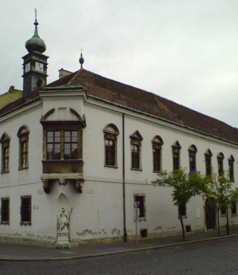 Collegium Budapest: main building, Szentháromság street, Budapest, Hungary